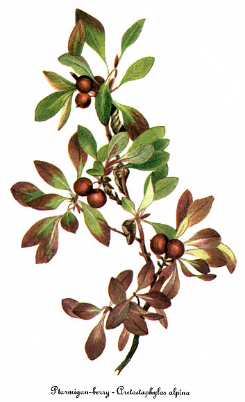 Watercolor painting of Arctostaphylos_alpina.